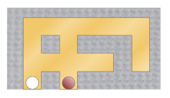 A multiband PIFA for 802.11 use in a NIC at 2.4 GHz and 5.2 GHz